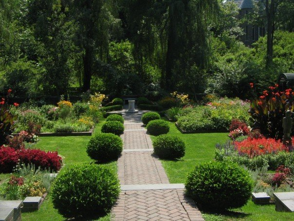 Shakespeare Garden